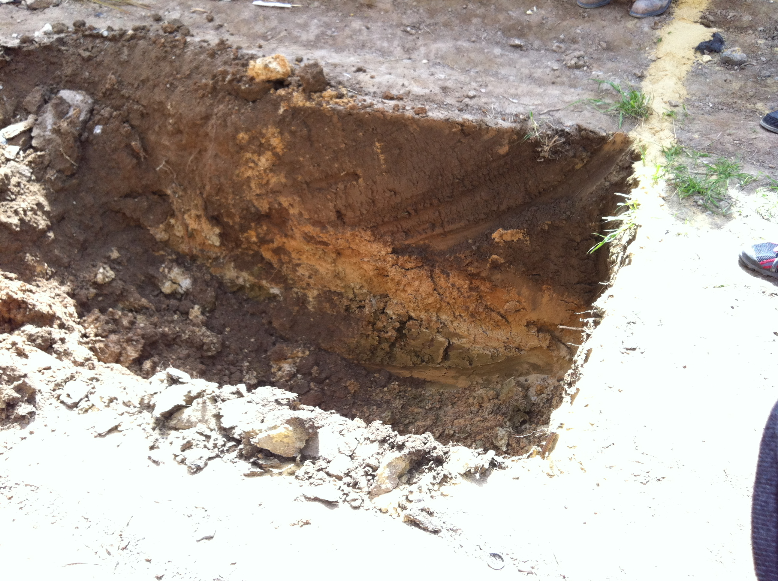 Construction in Tunisia